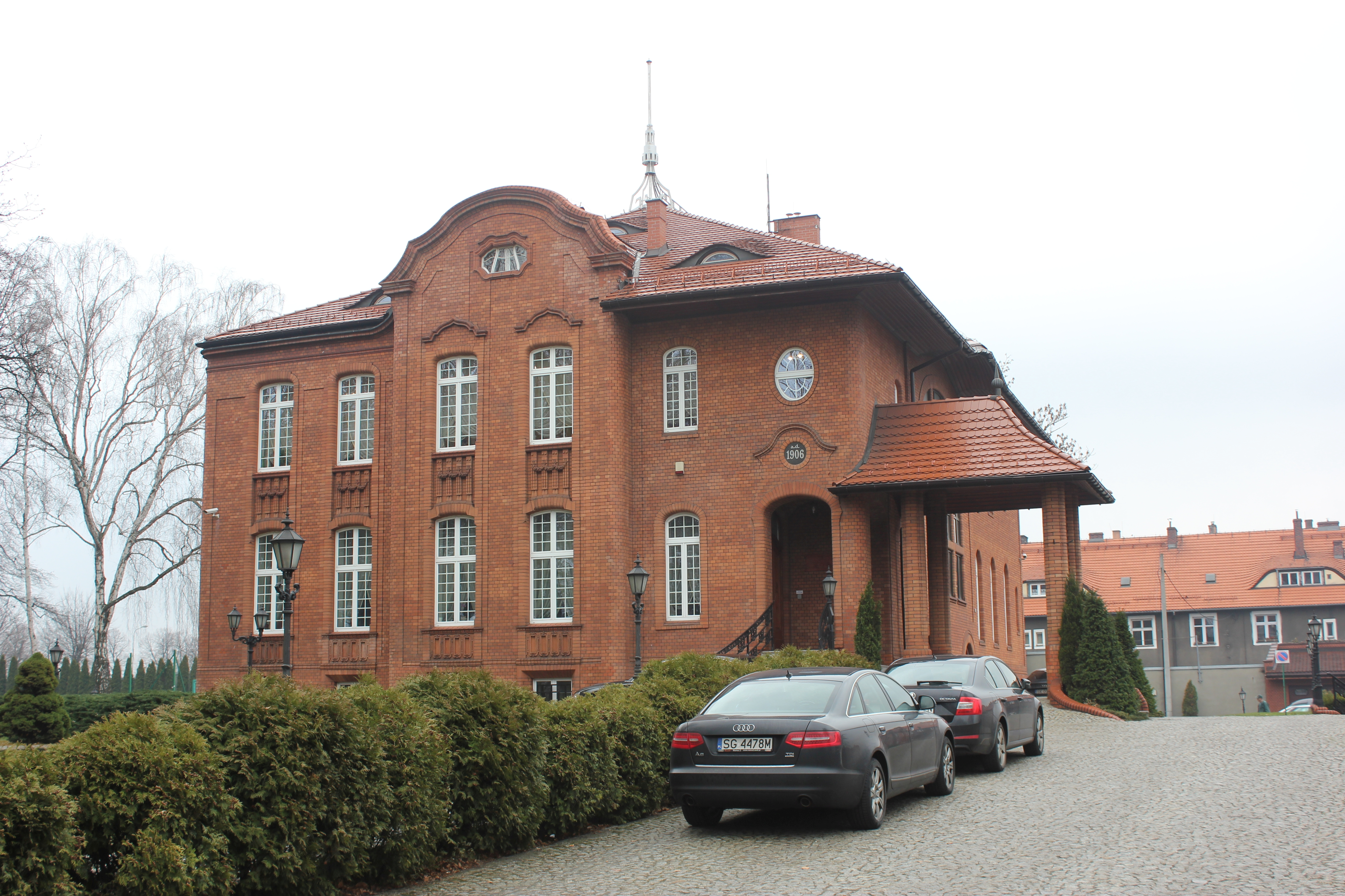 Chorzów - old villa of Batory Steel Works director